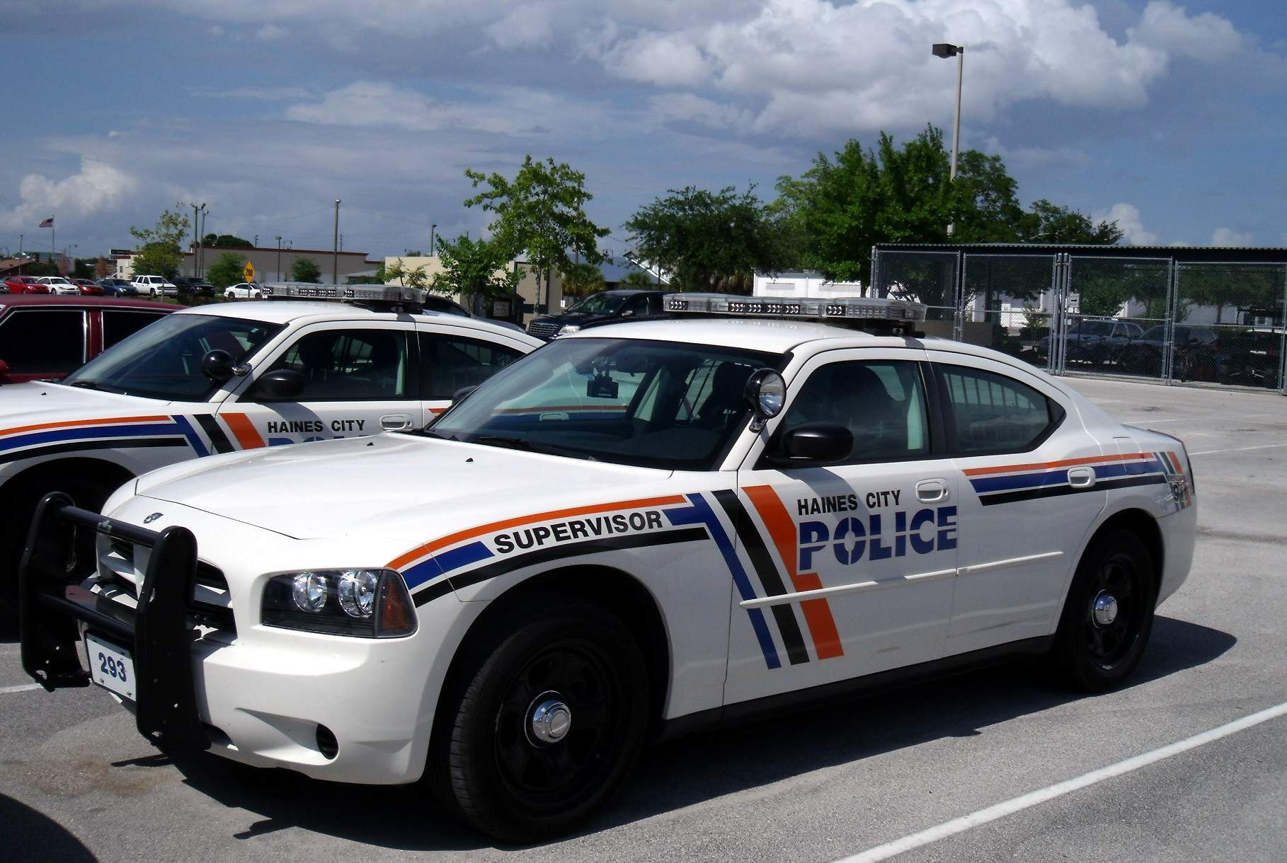 9th August 2010 - 1000 views Parked in the lot behind the Police Station